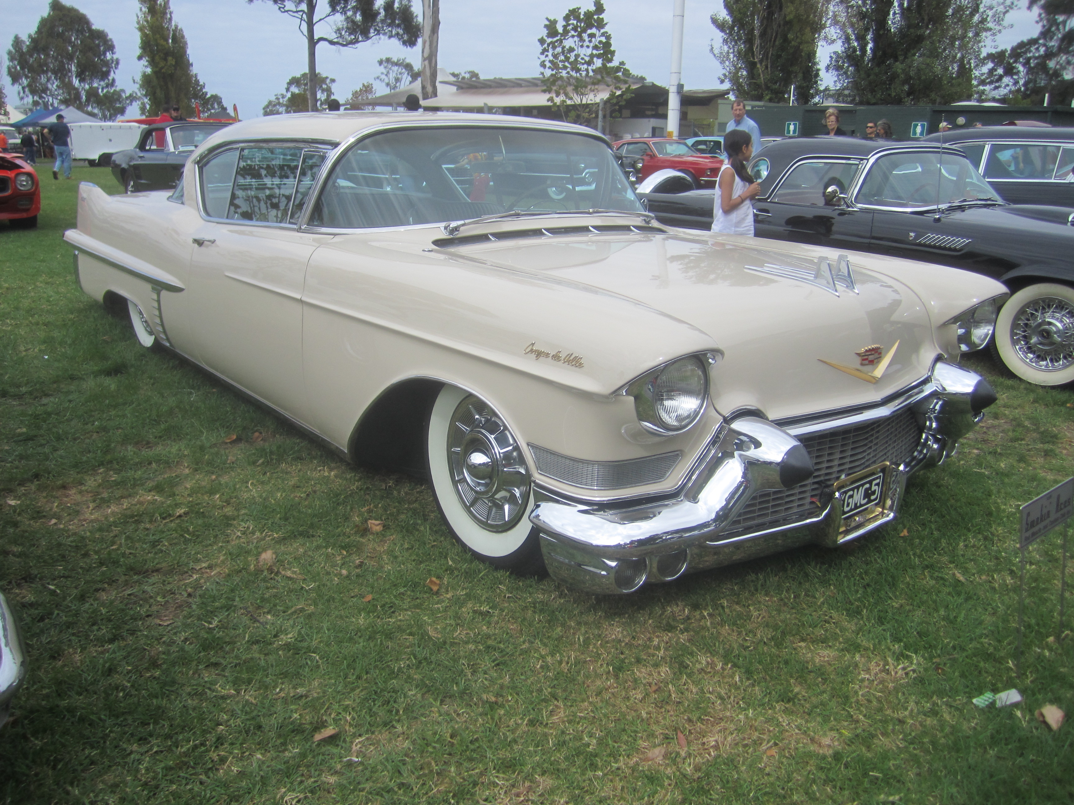 The new 1957/58 Cadillac got a new chassis letting it sit lower, the bumper guards now had rubber tips and the parkers now circular along with the tail lights. It also got revised side trim and the fins were now more like a cut off shark fin. Deville or Eldorado insignia on the front fenders. It was available in; base Series 62, in Sedan, Coupe de Ville, Sedan de Ville and Convertible, Upmarket Sixty Special only 4 door Sedan with power seats and power brakes (now pillarless as well and ribbed stainless steel fender skirts), and 75 Series long wheelbase Engine; 365 cu in V8